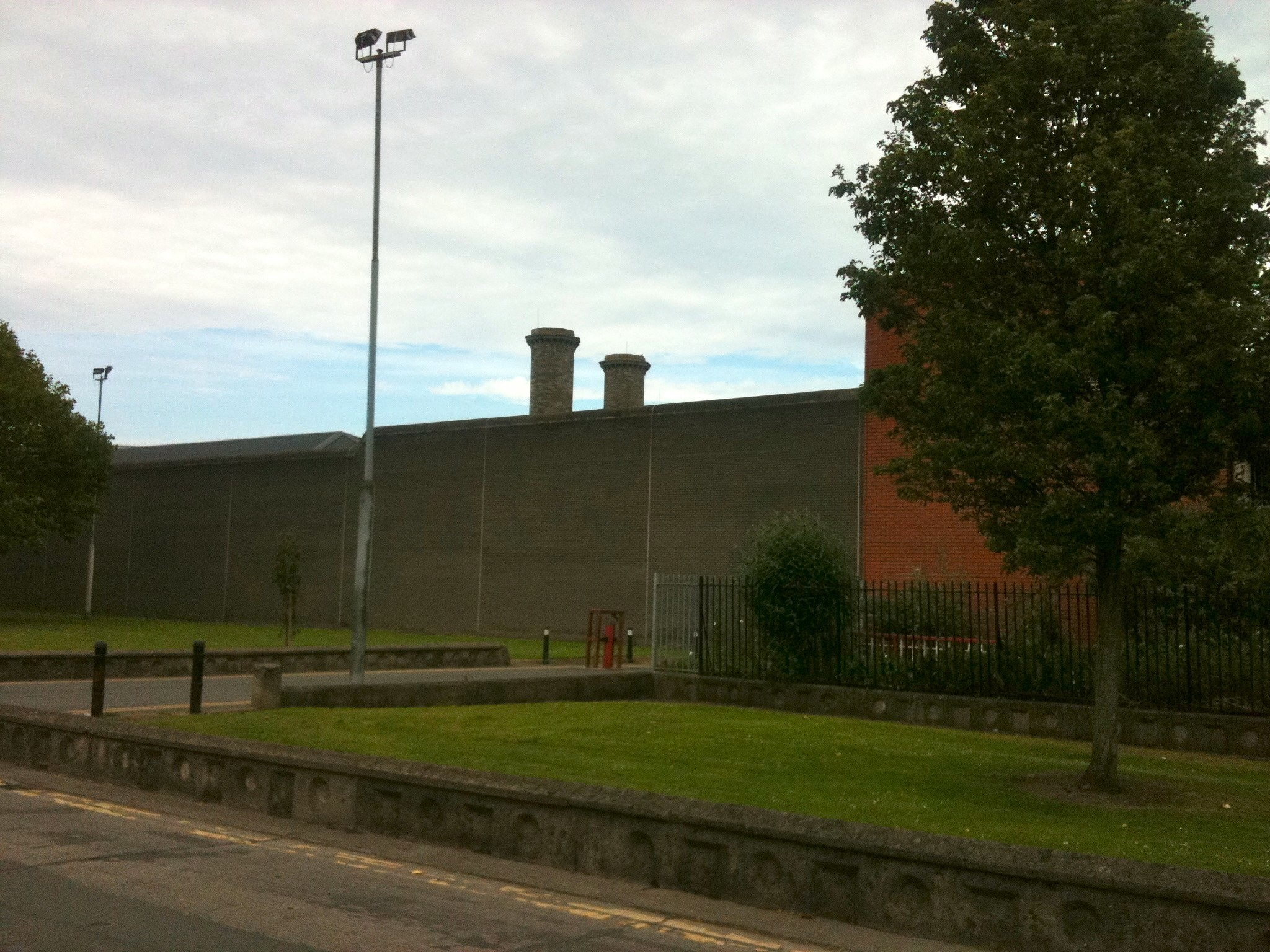 Mountjoy Prison, Phibsboro, Dublin, Ireland